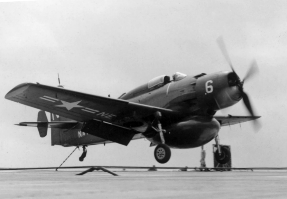 A U.S. Navy Douglas AD-4W Skyraider of Composite Squadron 12 (VC-12), Det.3, piloted by LT(JG) Richard G. Greenwood, lands on the aircraft carrier USS Leyte (CVA-32). VC-12, Det.3 was assigned to Carrier Air Group 3 (CVG-3) aboard the Leyte for a deployment to the Mediterranean Sea from 28 August 1952 to 16 February 1953.